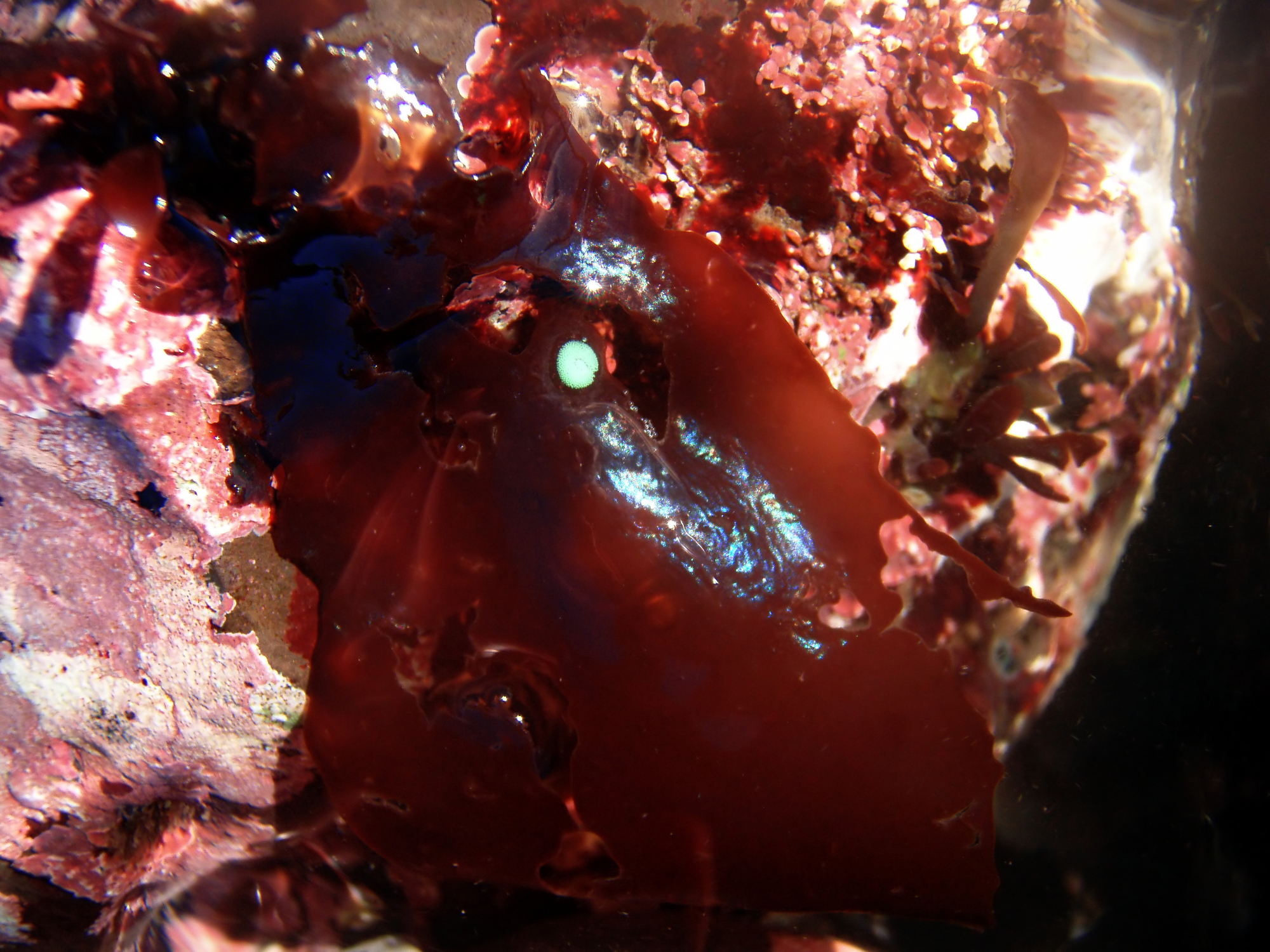 A Seagrass displays Iridescence at Moss Beach, California